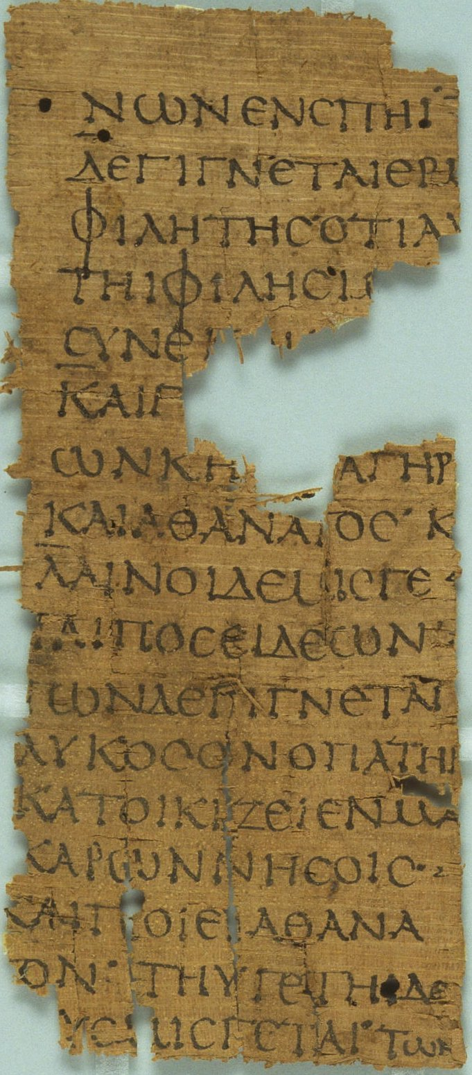 P.Oxy. VIII 1084 containing a fragment of Atlantis by Hellanicus of Lesbos